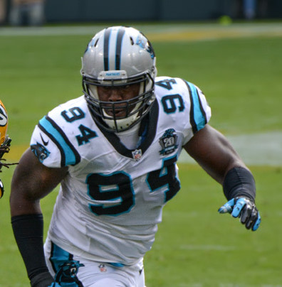 Carolina Panthers defensive end, Kony Ealy, playing against the Green Bay Packers on October 19, 2014.